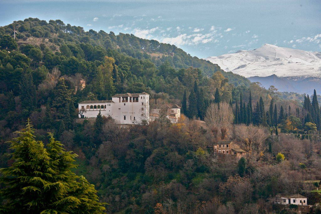 Looking from the Plaza of St Nicholas